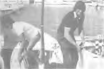 Vince Brun and Steven Bakker